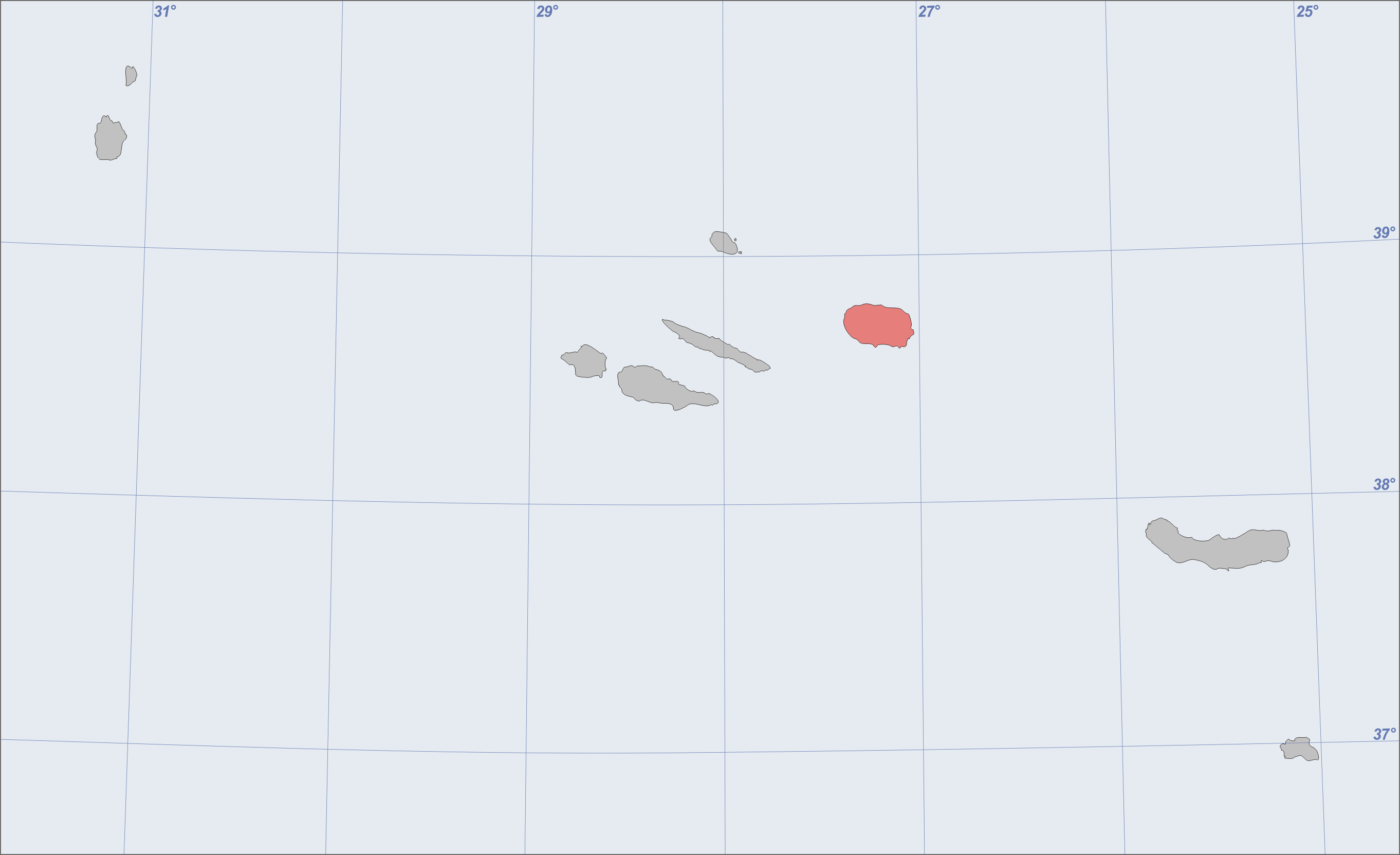 Position of Terceira Island, Azores drawn by varp